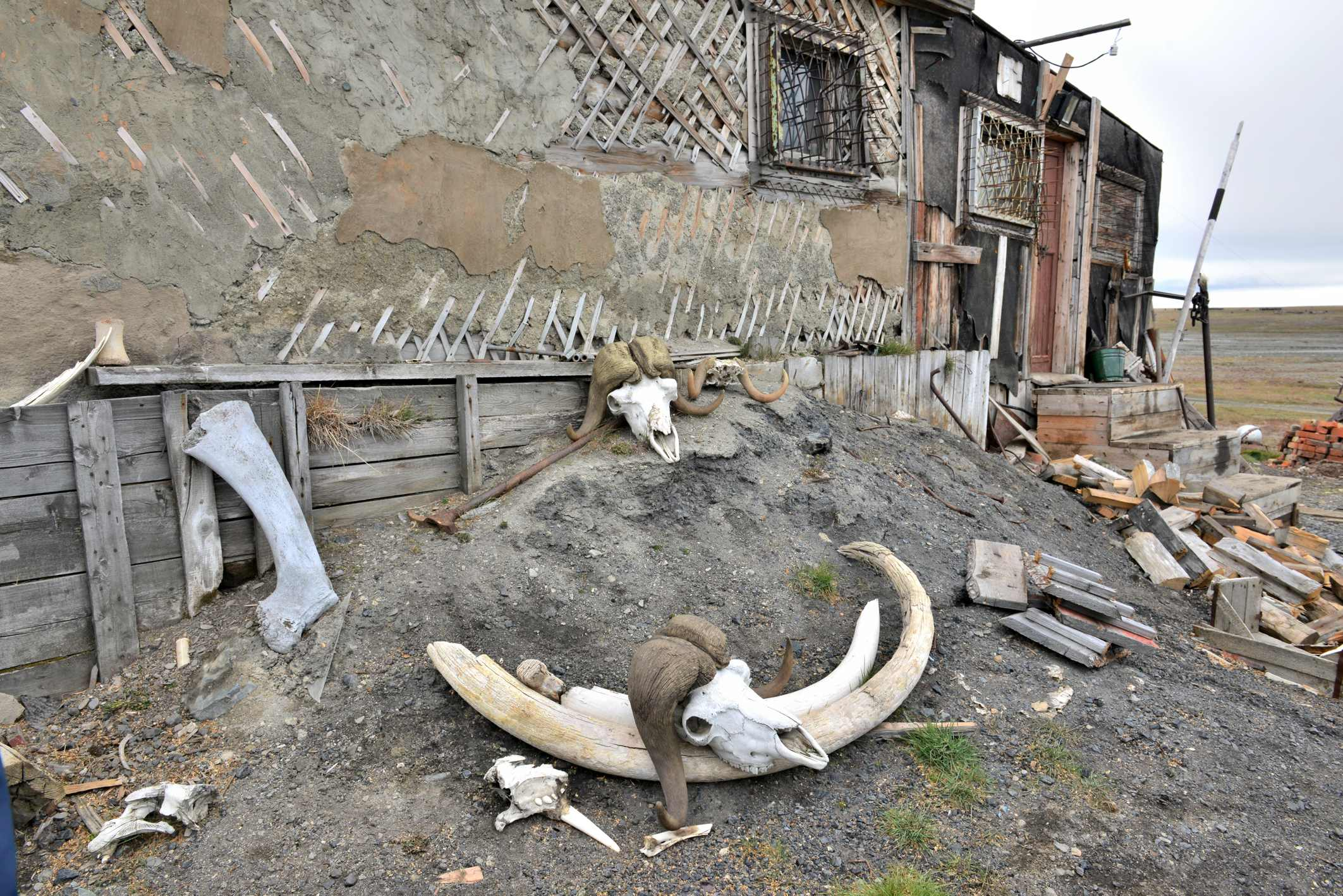 Somnitelnaya: “Exhibition“ of woolly mammoth and muskox relicts (Wrangel Island, Chukchi Sea, Russia)